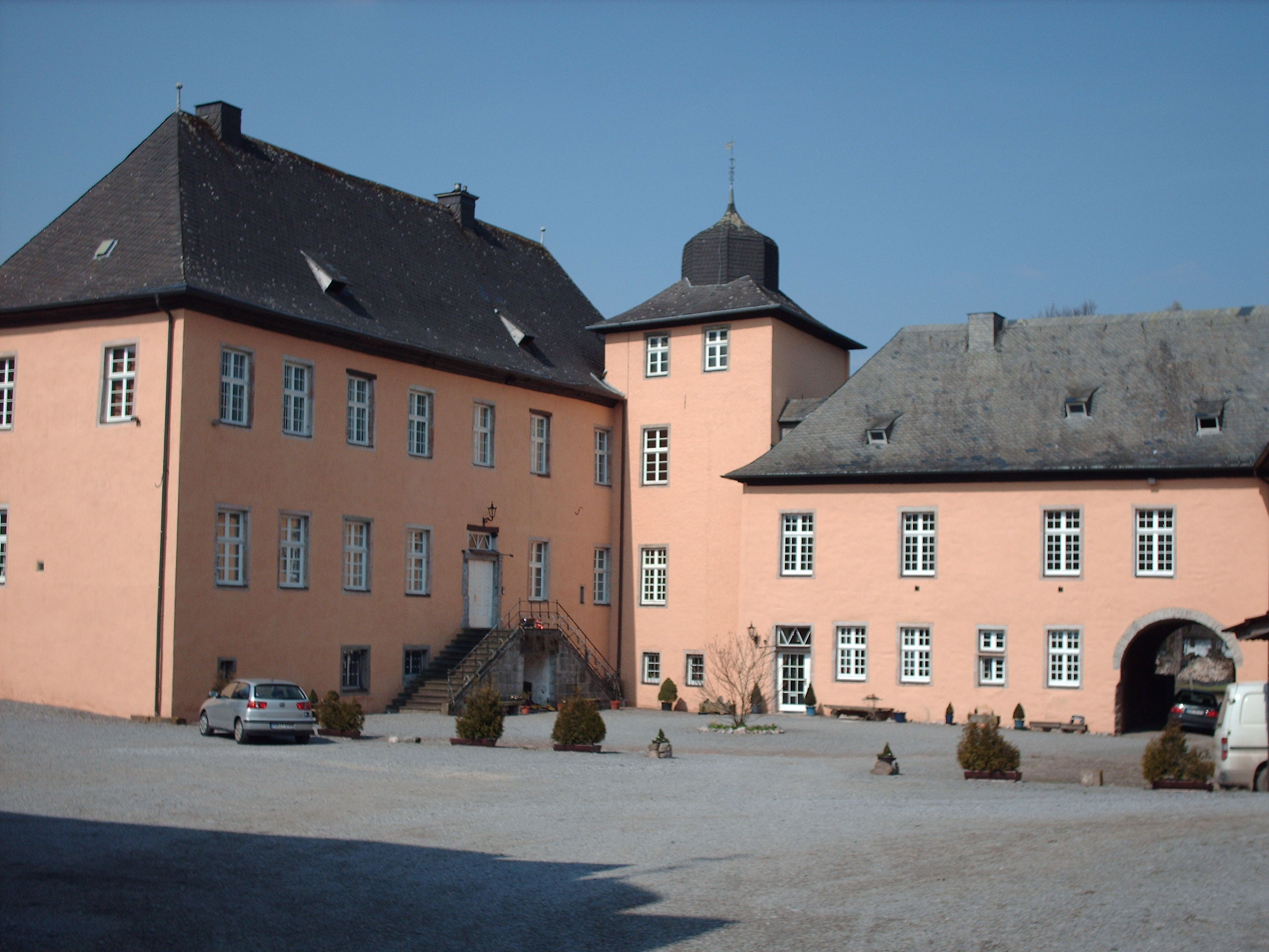 Haus Amecke, Sundern, Germany check usage